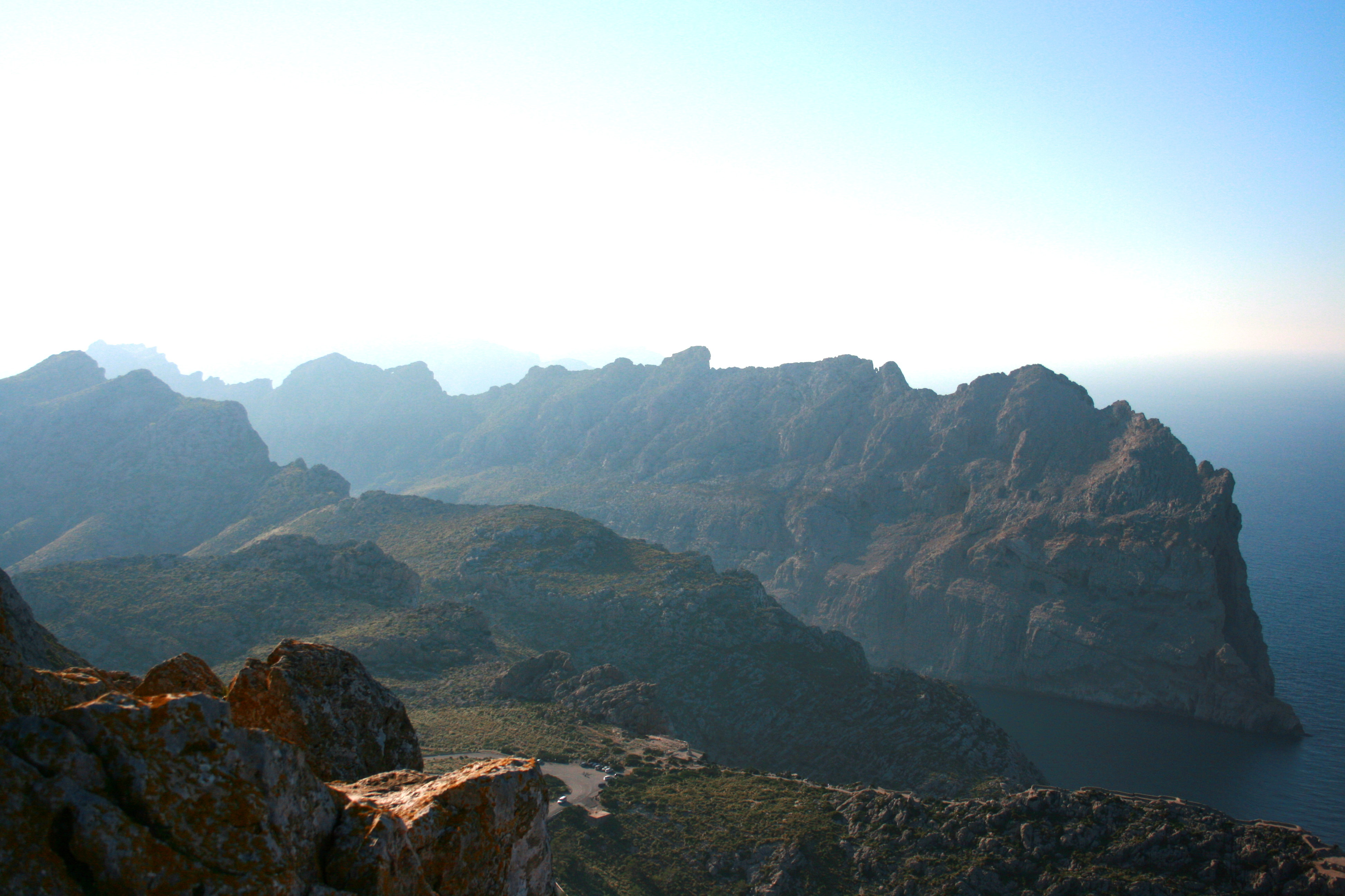 Mirador de Mal Pas viewed from Talaia d'Albercutx, peninsula of Formentor, Pollença, Mallorca